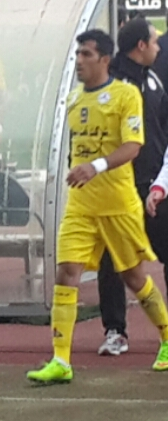 Vahid Amiri, Iranian footballer